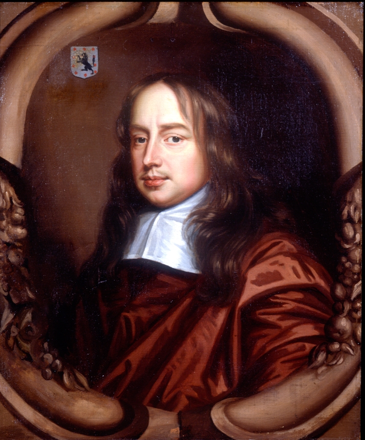 William Pierrepont (c1607-1678)